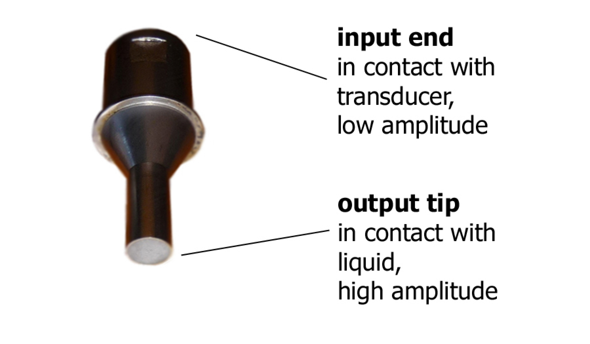 Conventional converging horn used in ultrasonic machining